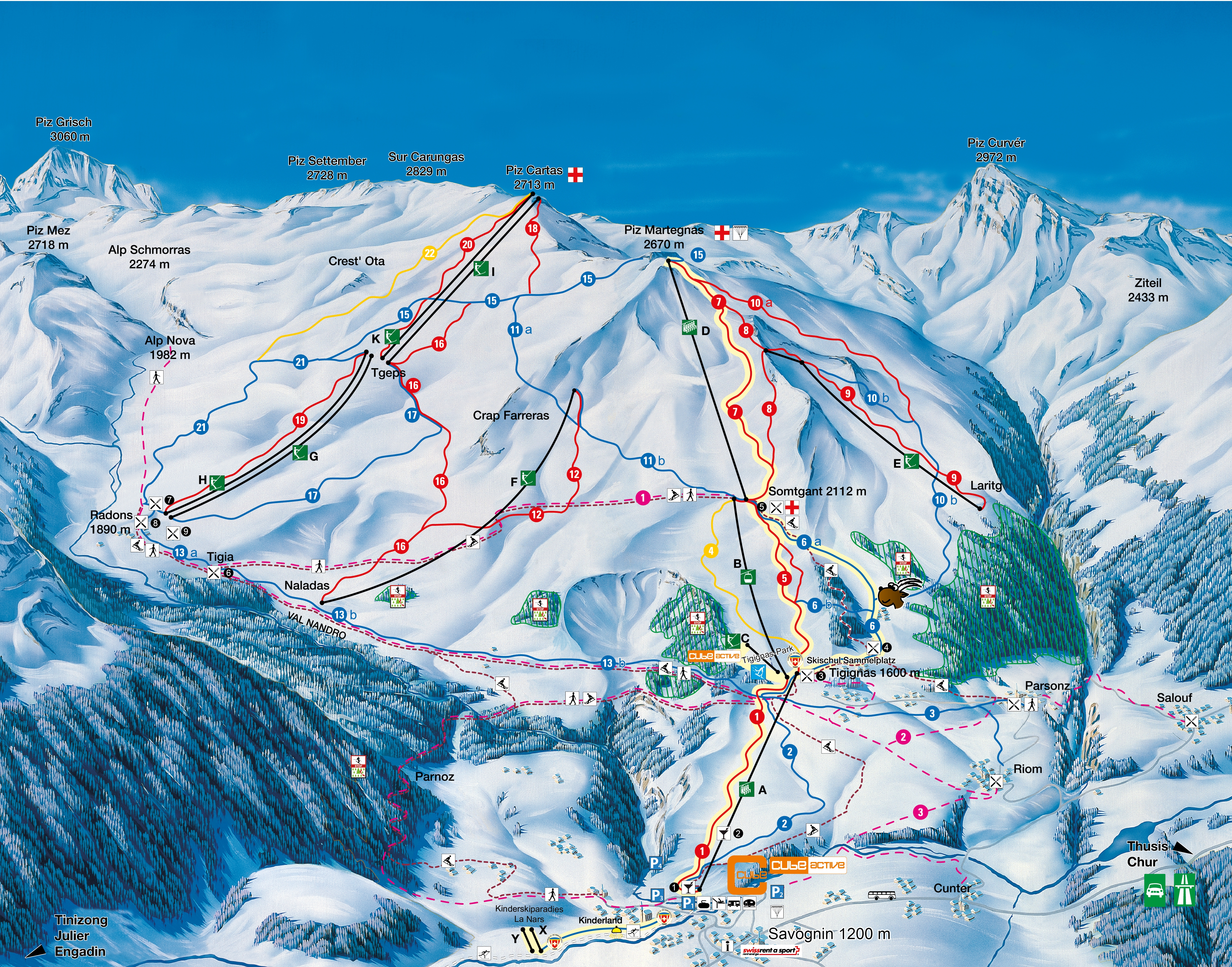 Map of ski resort Savognin, Grisons, Switzerland Rumantsch: Plan da pistas digl territori da skis Savognin, Grischun, Svizra